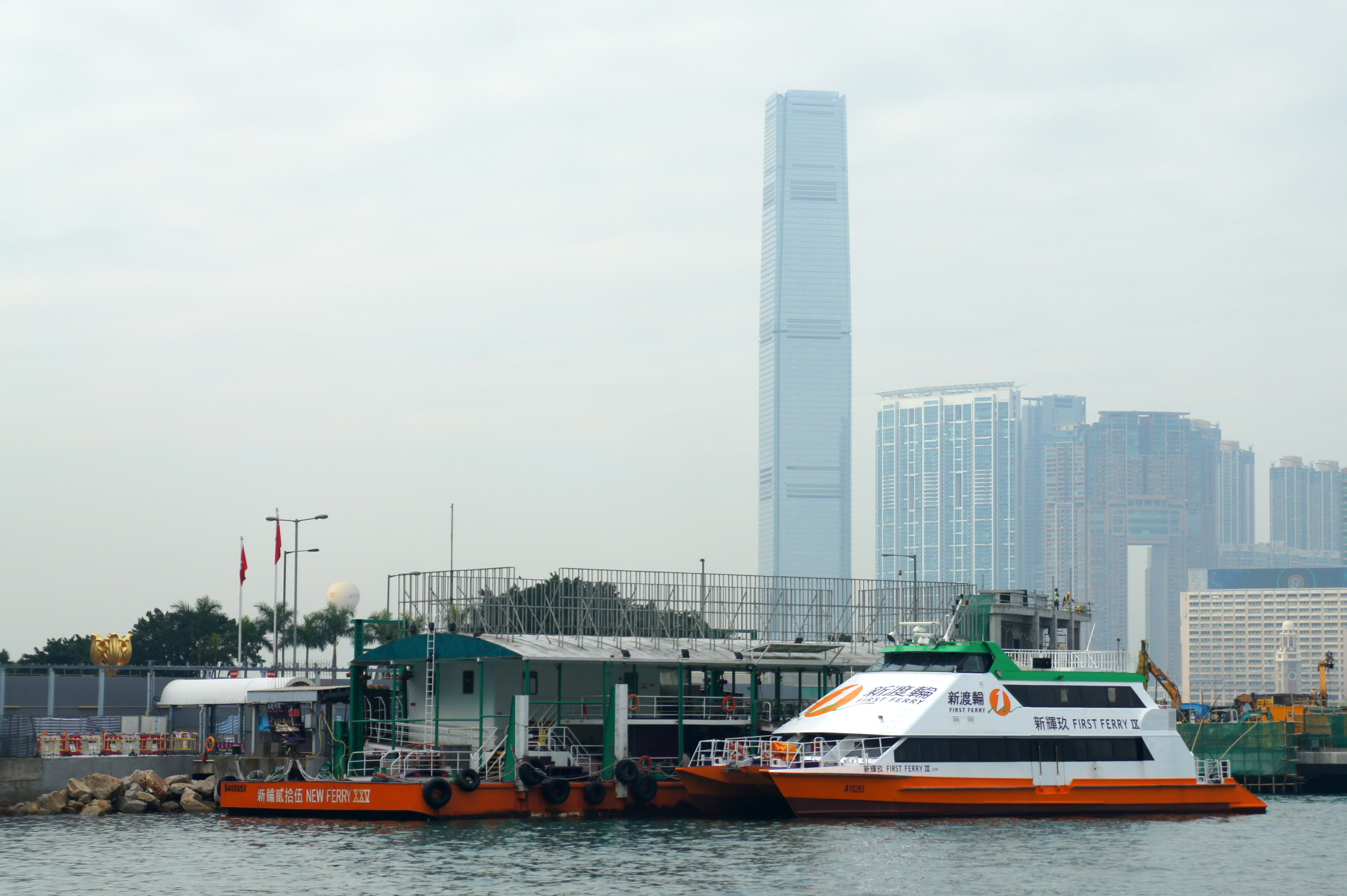 Wanchai Pontoon Pier, Expo Drive East, Wanchai, Hong Kong.